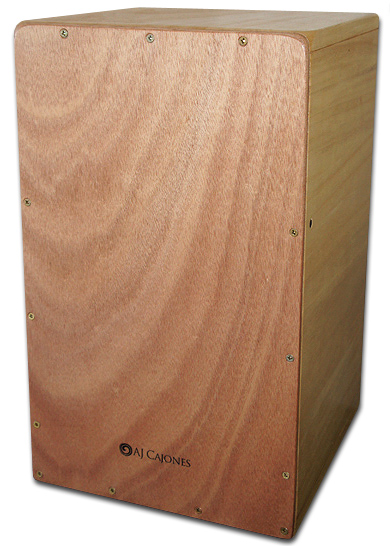 Cajón flamenco with snares. This Cajon is hand-made in Italy.